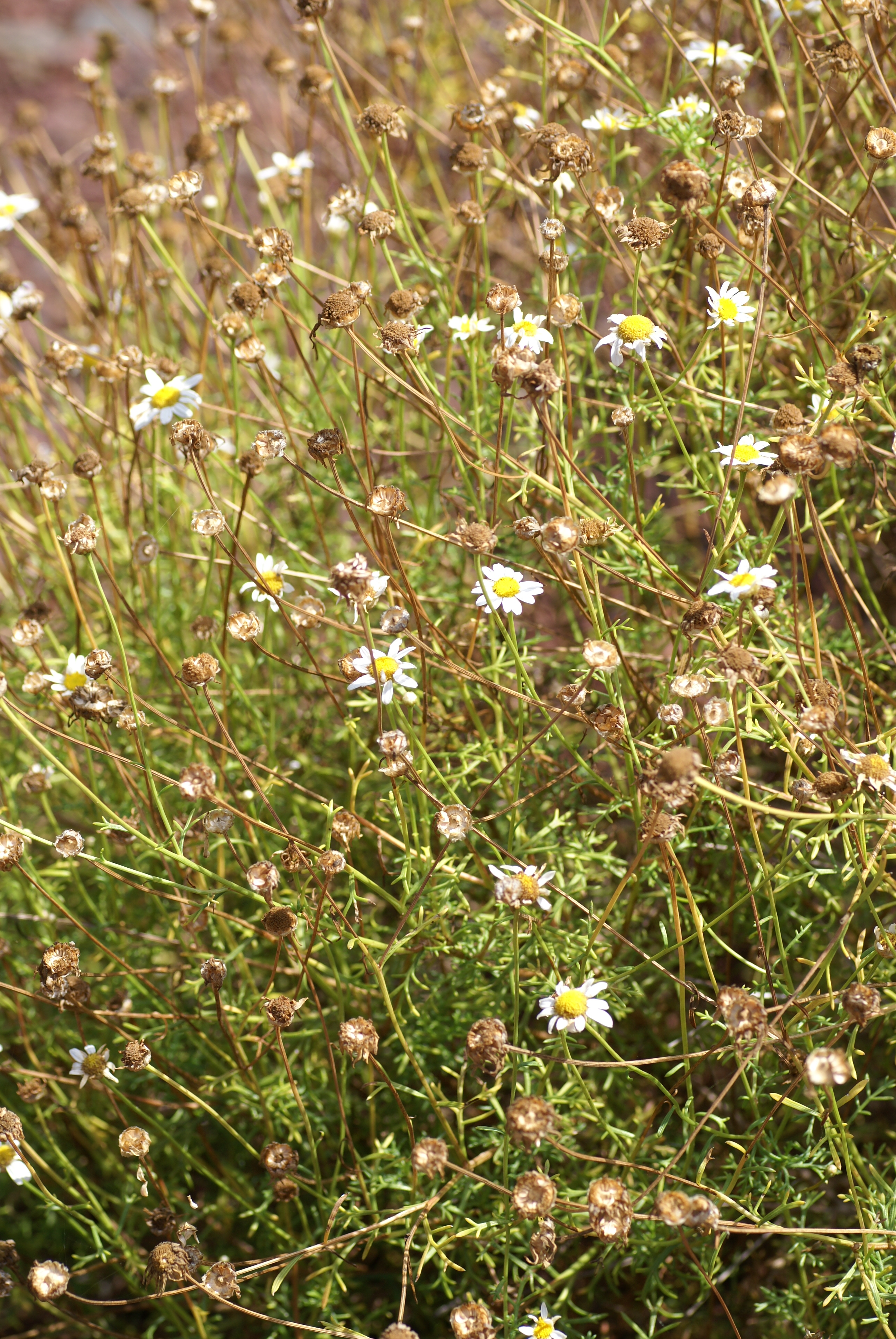 Pland species Argyranthemum foeniculaceum in garden at Heyerdahl's museum on Tenerife.